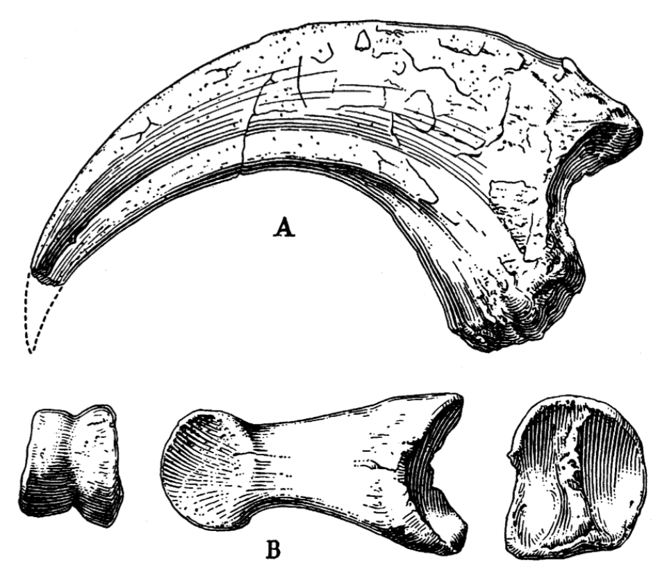 Fig. 9. Bones of the manus, Alectrosaurus olseni, No. 6368, A.M.N.H. A, ungual, digit I; B, proximal phalanx, digit II. Both figures one-half natural size.